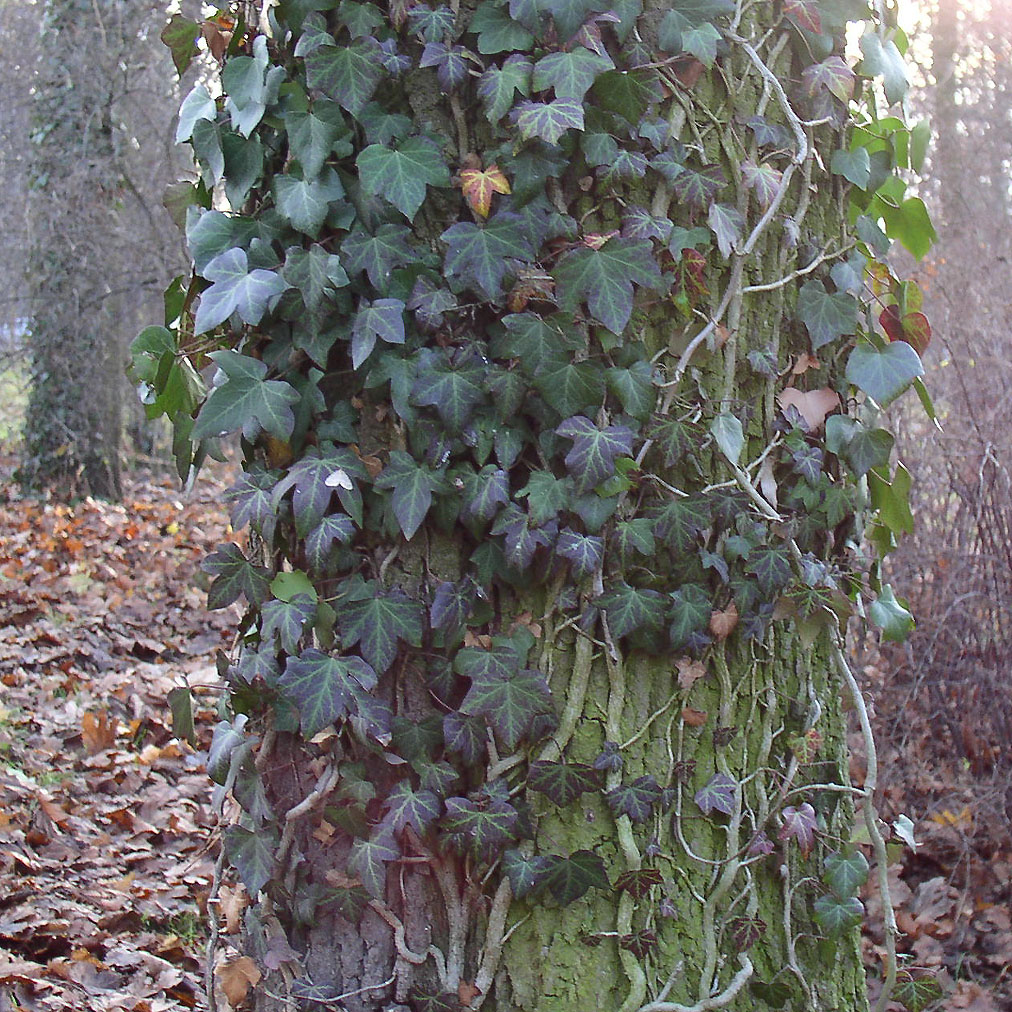 Ivy (Hedera helix), Wrocław, Poland.